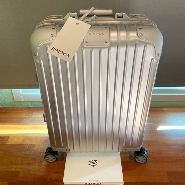 Suitcase RIMOWA Original Cabin